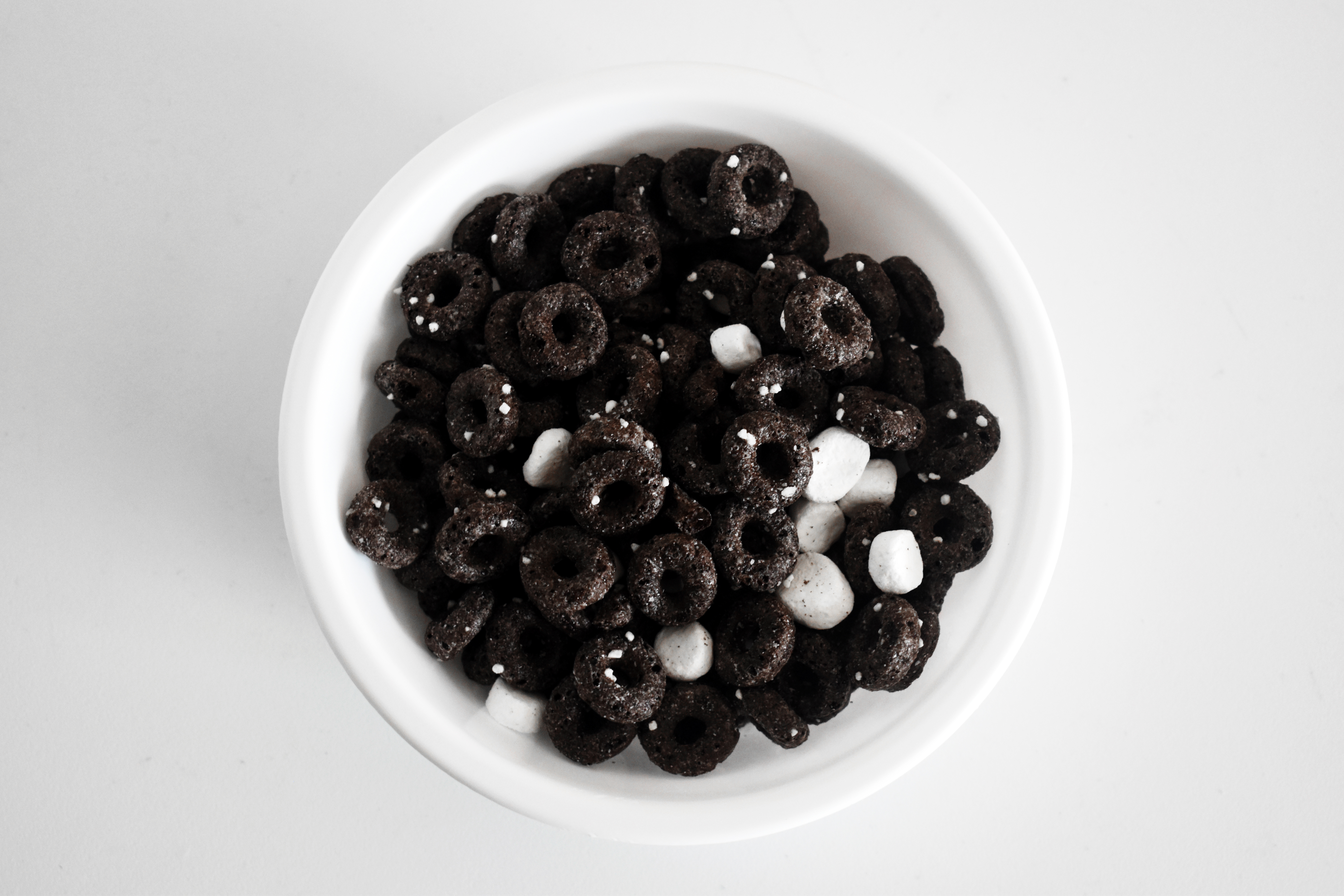 A bowl of Oreo O's cereal without milk.